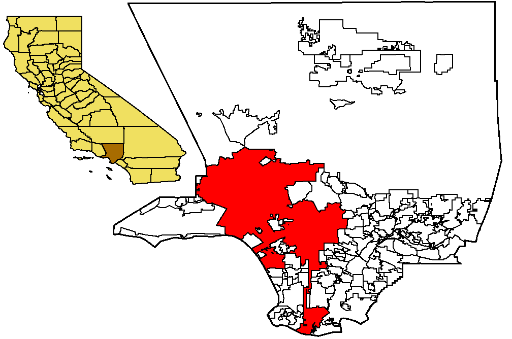 Locator map of the City of Los Angeles — in Los Angeles County, California.